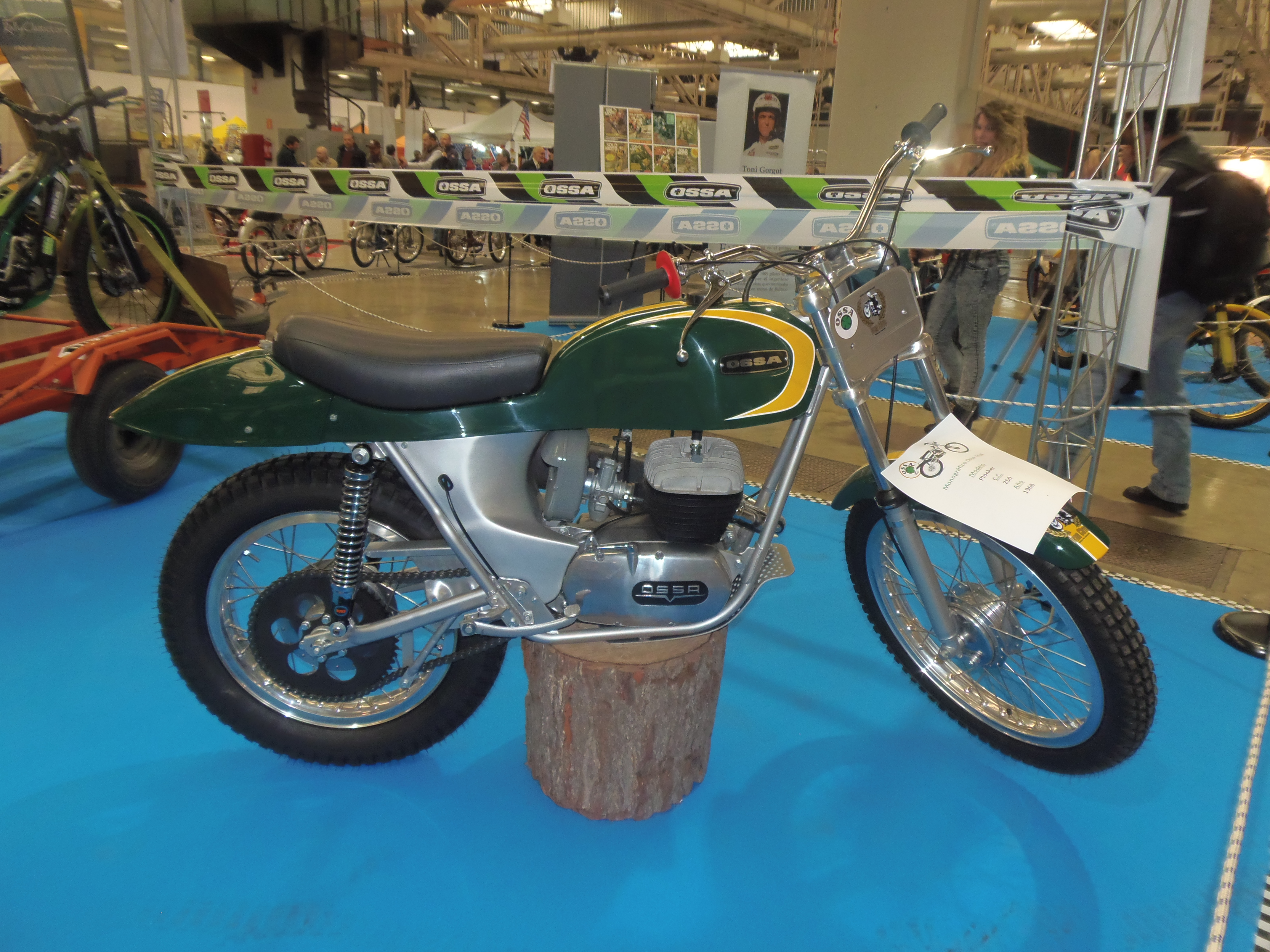 Ossa Pluma 250, 1968 (the filename is wrong)